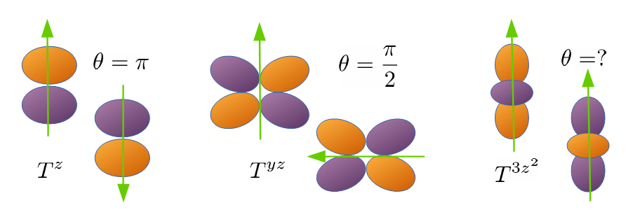 Flipping the phases of multipoles Ref: Phys. Rev. B 90, 045148 (2014)